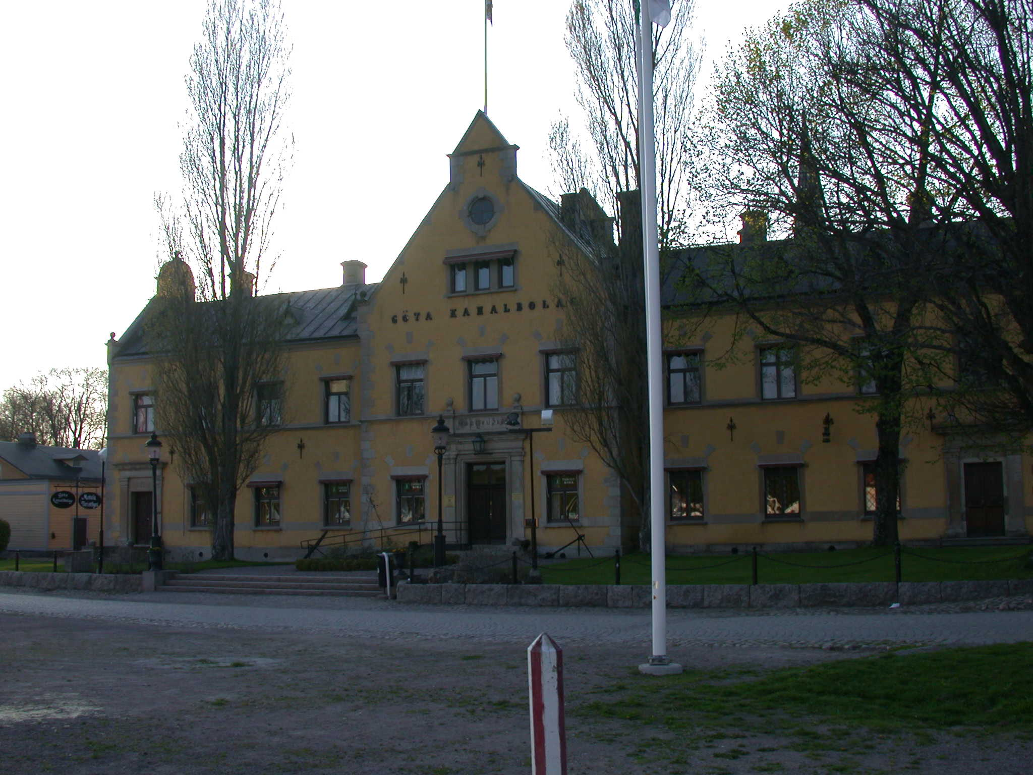 The head office of Göta kanalbolag, Motala, Sweden. Photo by Riggwelter, May 10, 2006.